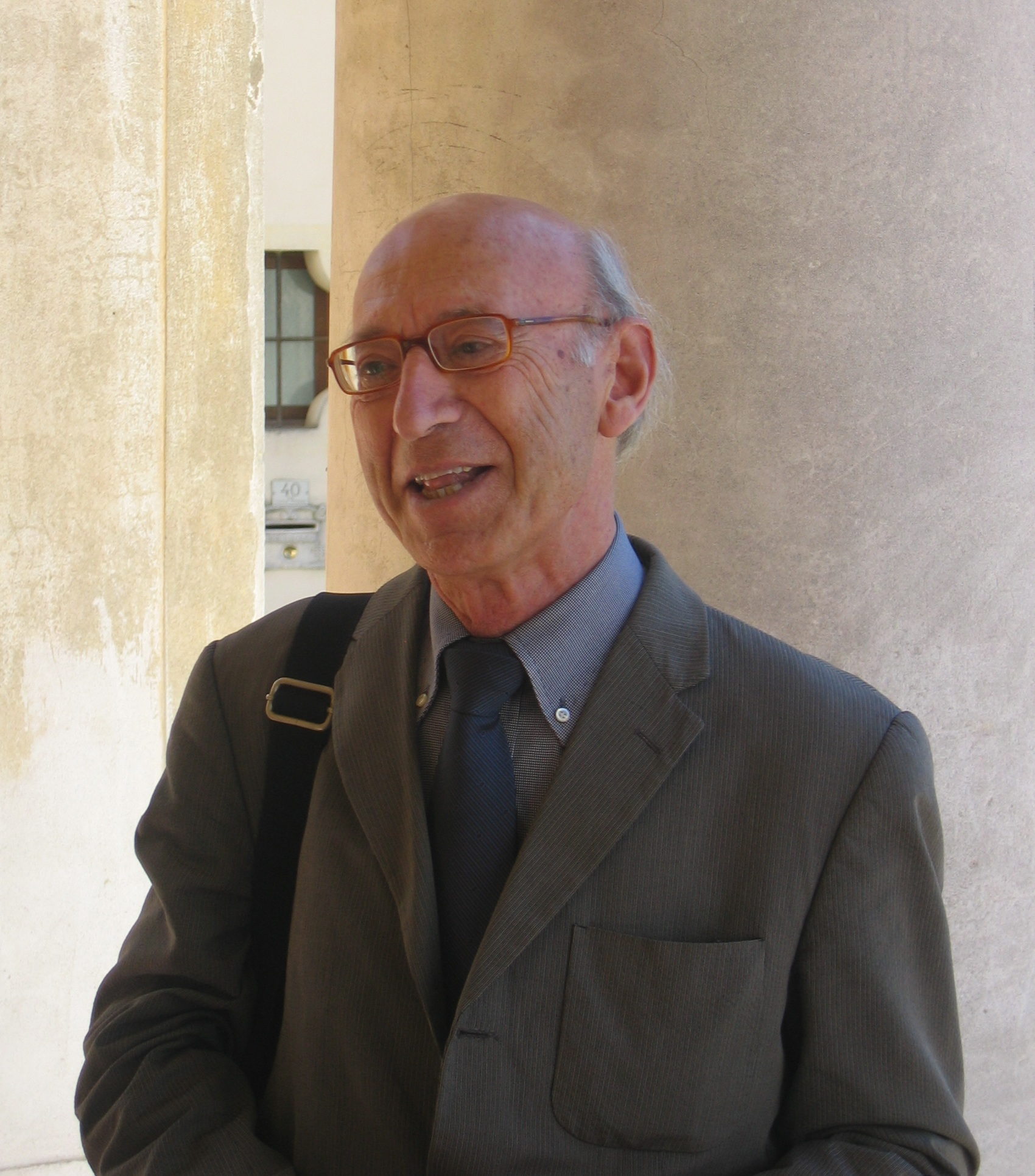 photo